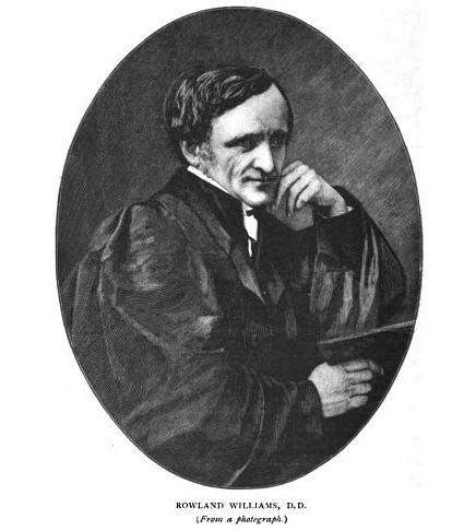 Rowland Williams (1779 – 28 December 1854) was a Welsh Anglican priest and writer.